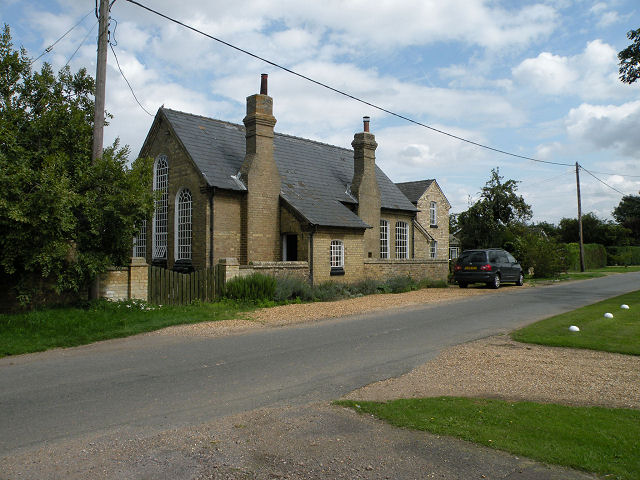 The Old Schoolhouse, Chittering Built in 1877 for 54 children, attendance declined to 19 by 1938. Even so it remained in use until 1969.